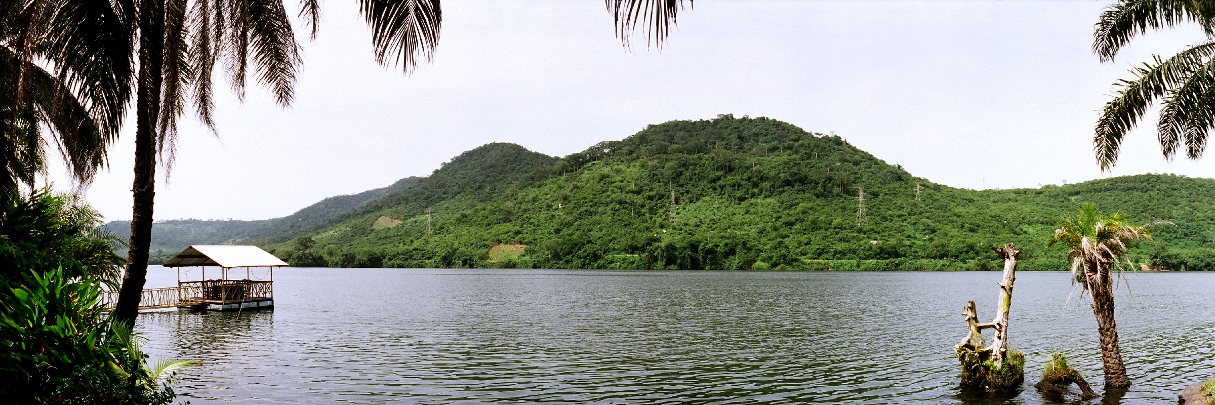 Volta River. More landscape version of File:Volta River.jpg.